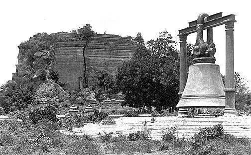 Mingun Bell was resuspended by the Irrawaddy Flotilla Company in March 1896 using screw jacks and levers using funds from public subscription.